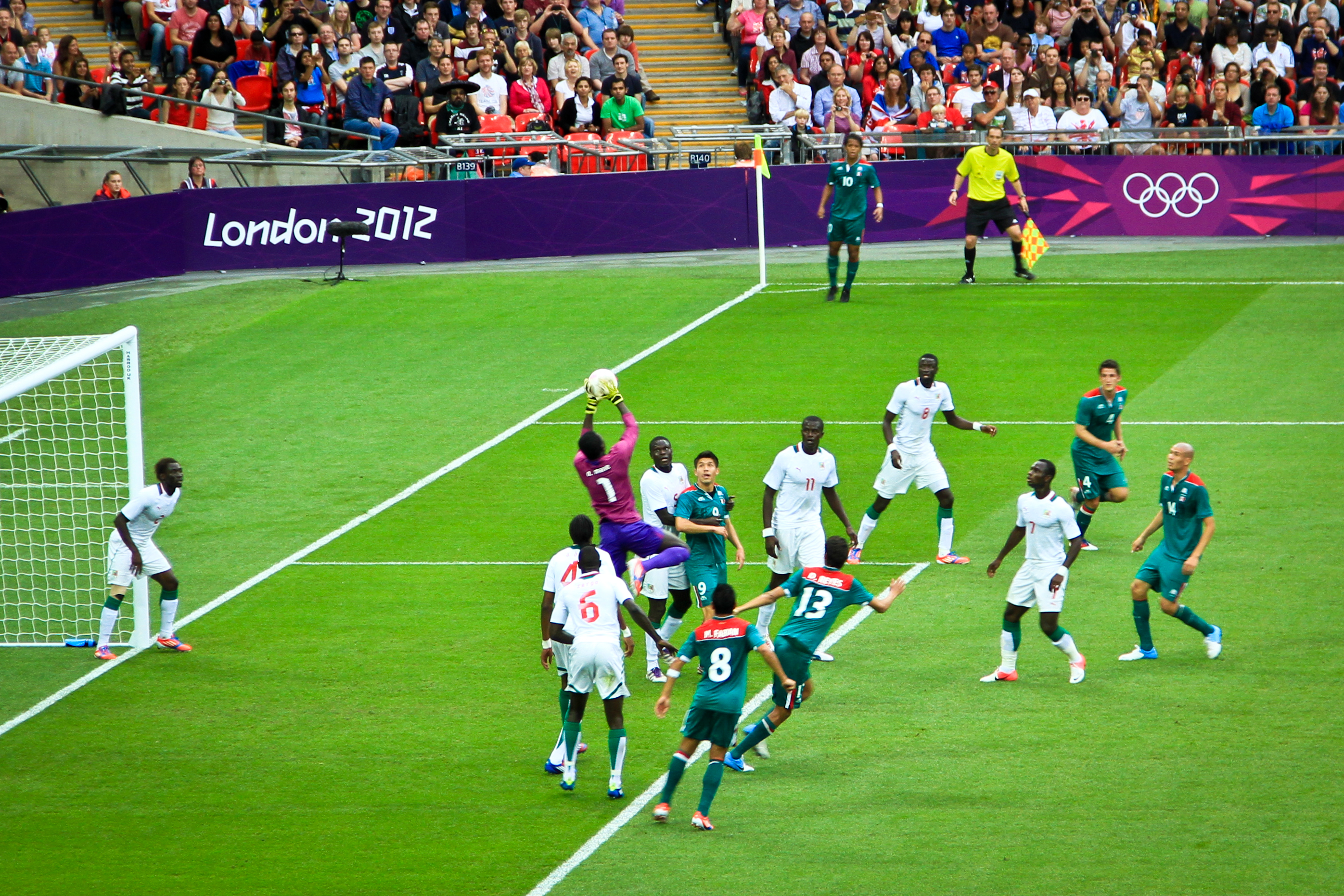 Ousmane Mané catches a corner kick from Gio Dos Santos.